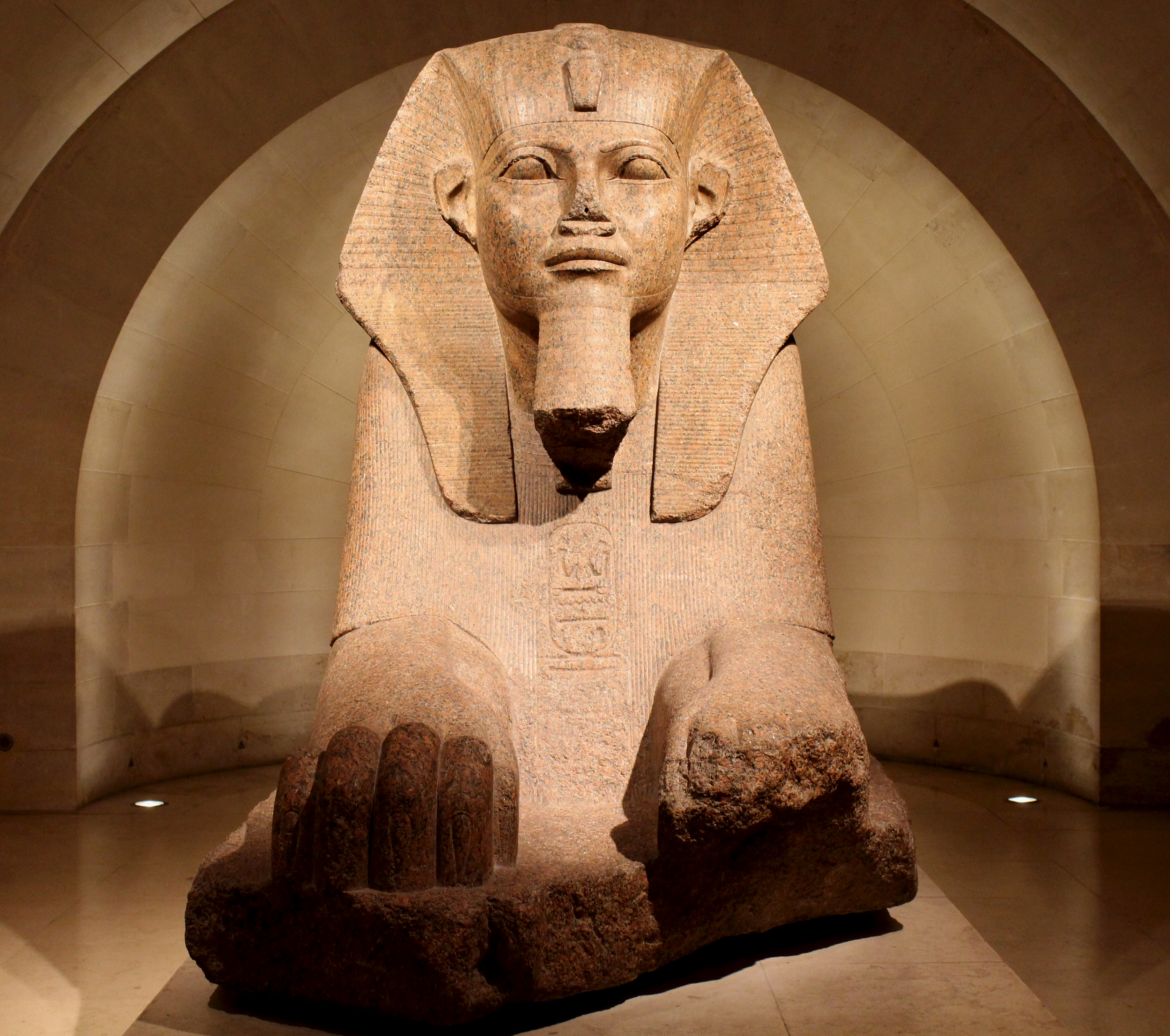 Great sphinx bearing the names of Amenemhat II (12th Dynasty), Merneptah (19th Dynasty) and Shoshenq I (22nd Dynasty).